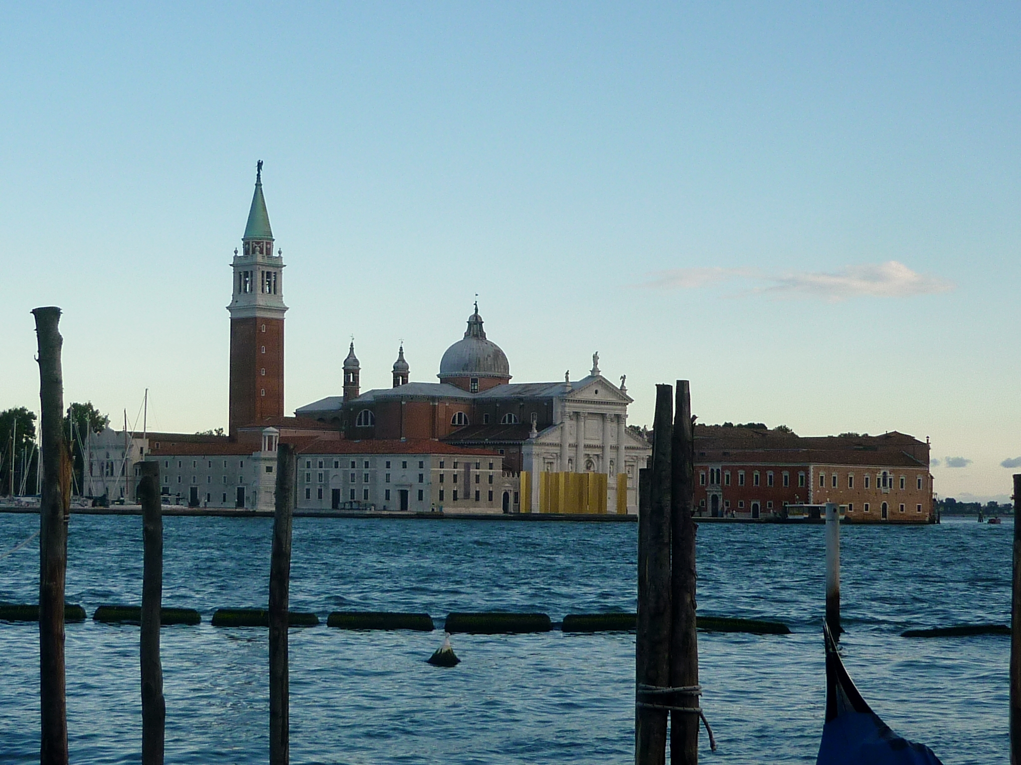 San Giorgio Maggiore, Venice